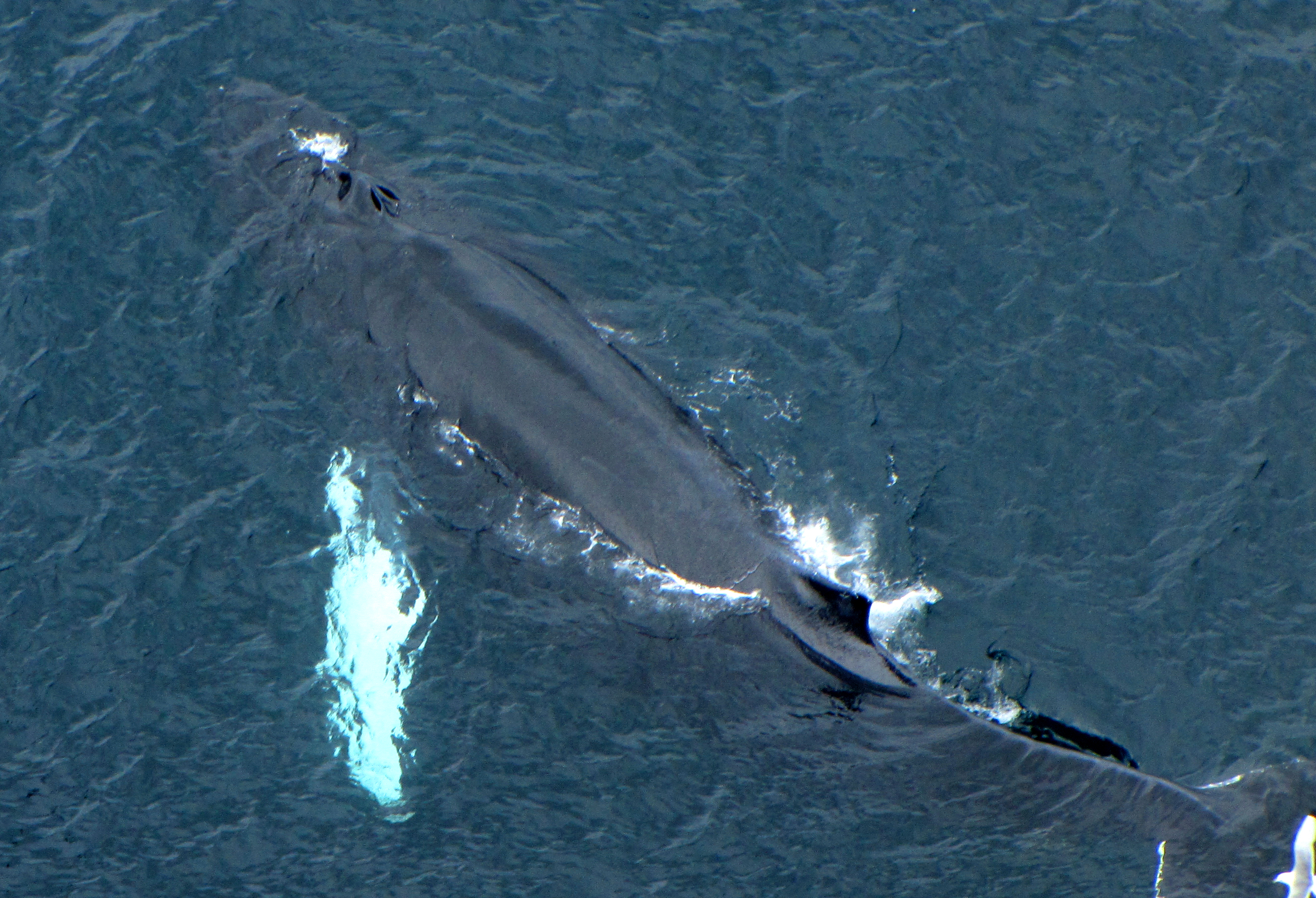 Humpback Whale (Megaptera novaeangliae), two blowholes clearly visible, St. Mary's Ecological Reserve, Newfoundland and Labrador